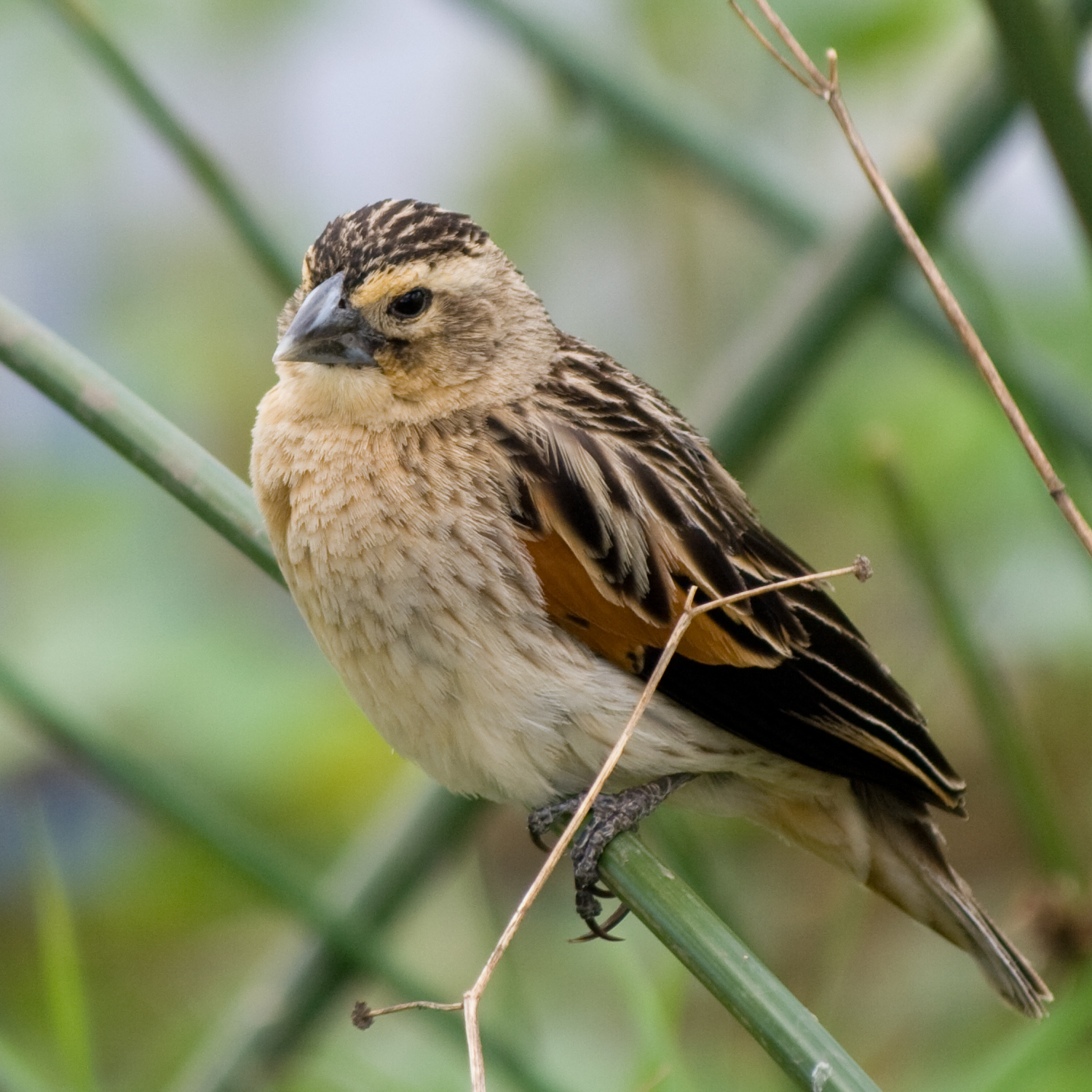 A male Fan-tailed widowbird (in eclipse plumage) at Ngoitokitok Springs, Ngorongoro Crater, Tanzania